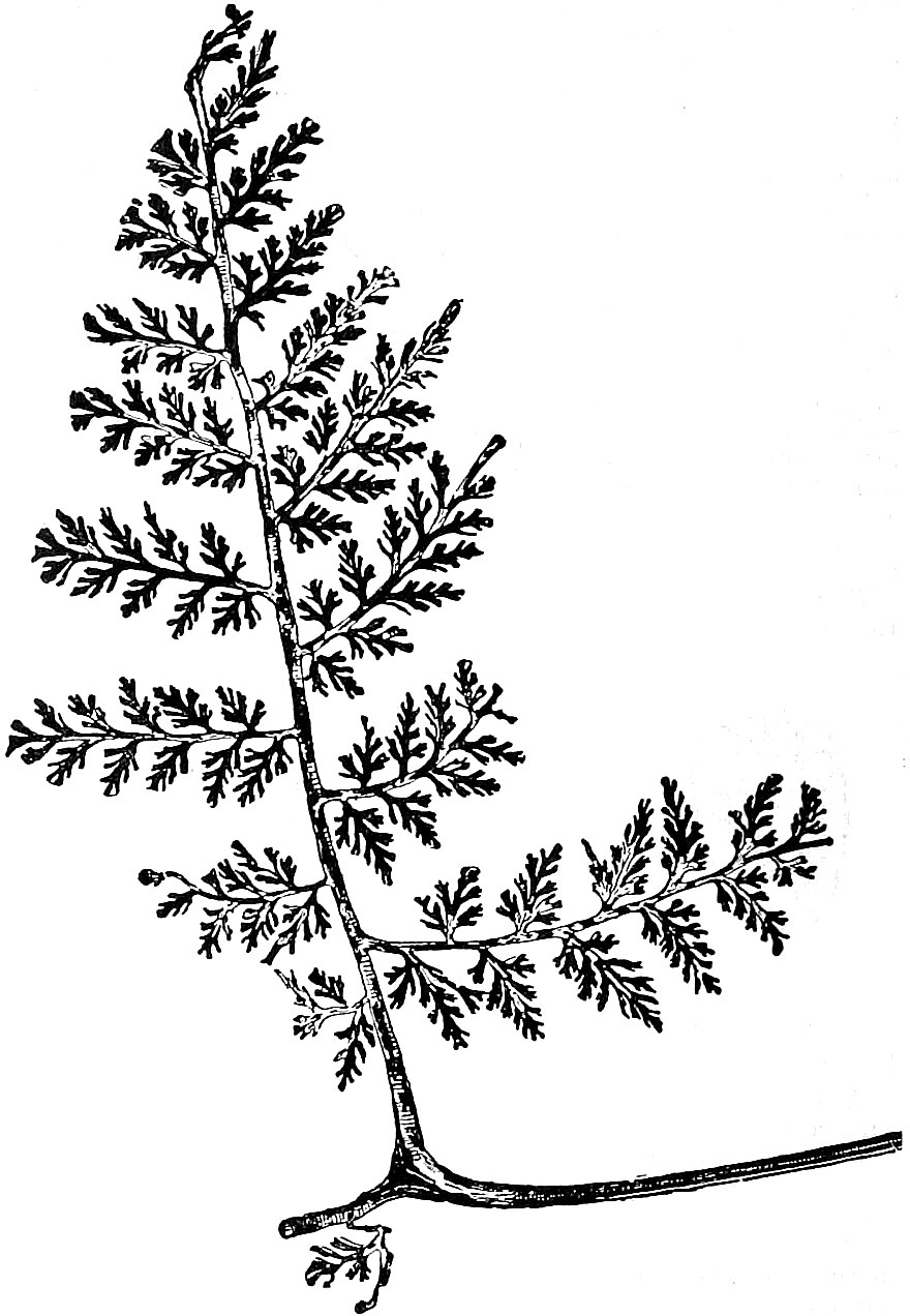 Drawing of part of a frond of Sphenopteris elegans (foliage of Heterangium grievii).